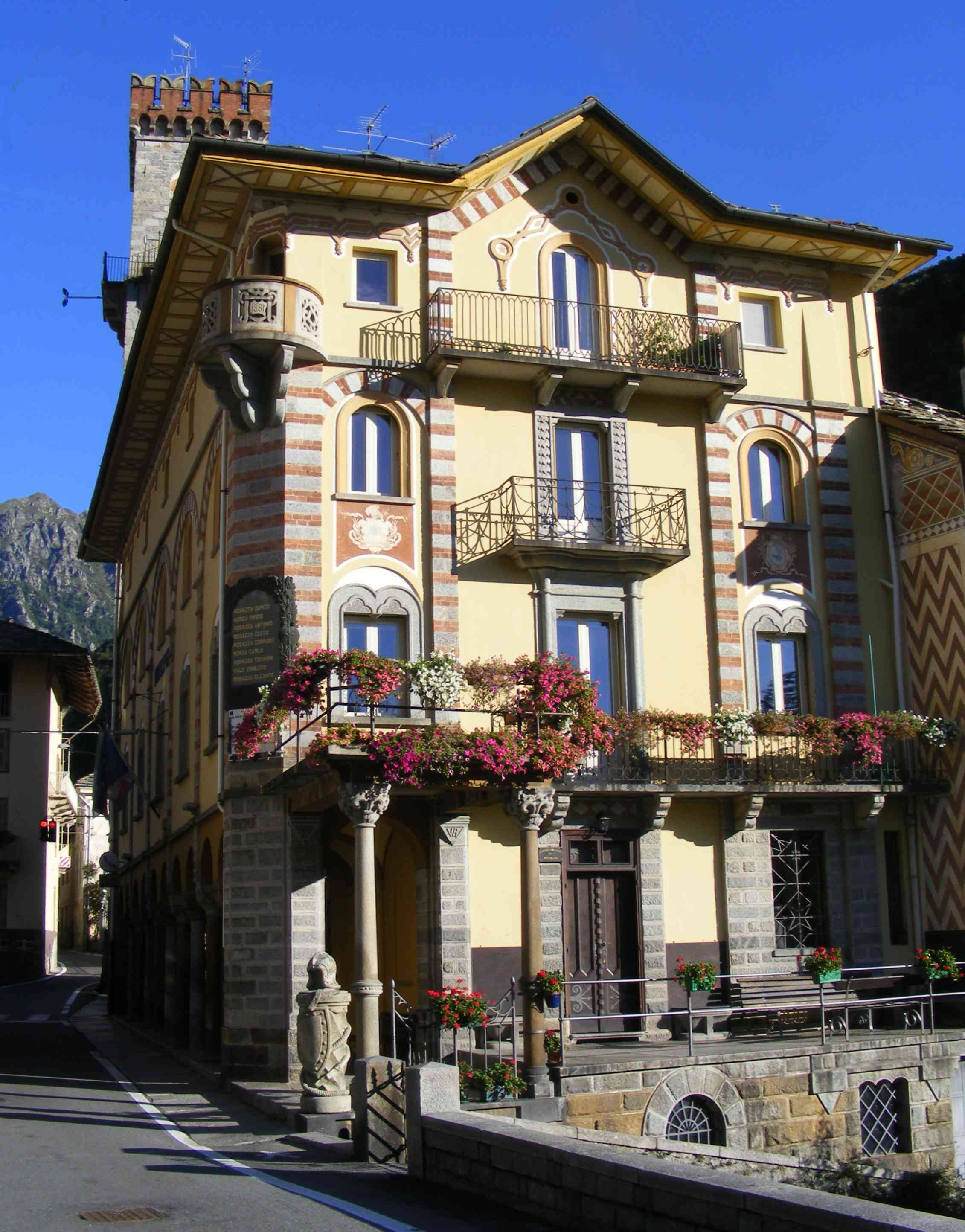 Rosazza (BI, Italy): town hall